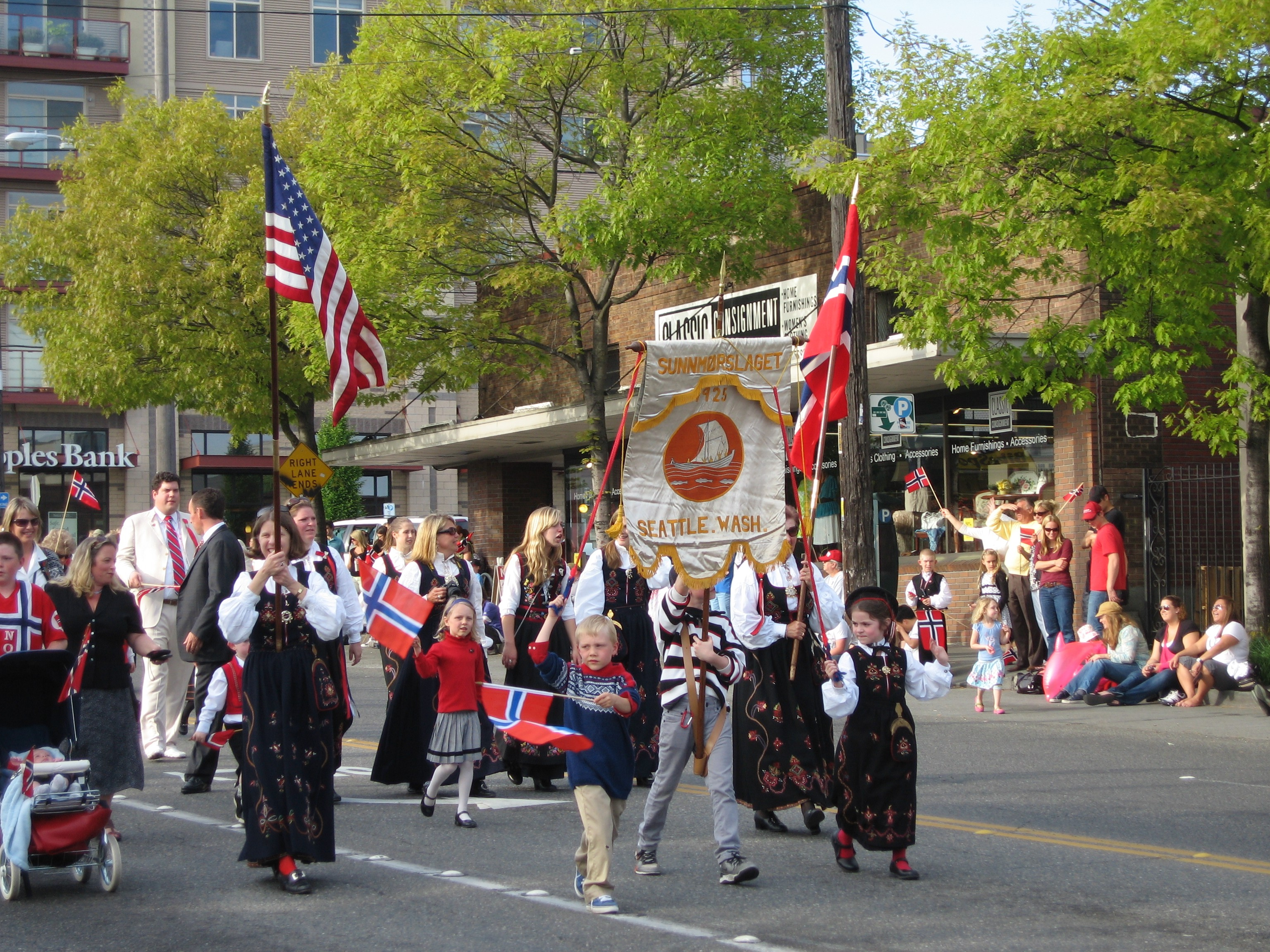 Norwegian Constitution Day, 17 May, celebrated in Ballard, Seattle, 2010. Sunnmørslaget.